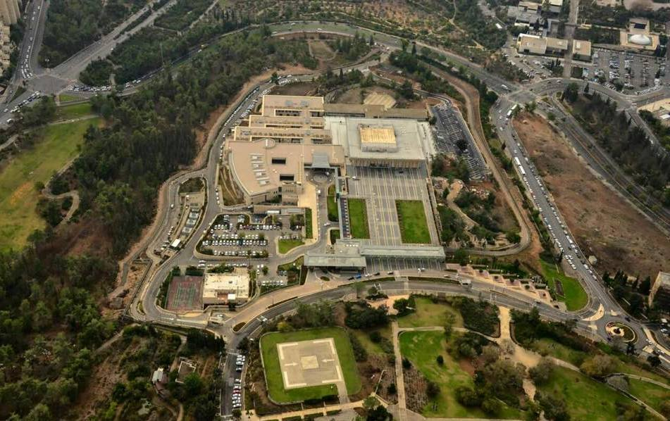 Jerusalem from the air, by the Israeli Police Airborne unit, The Knesset